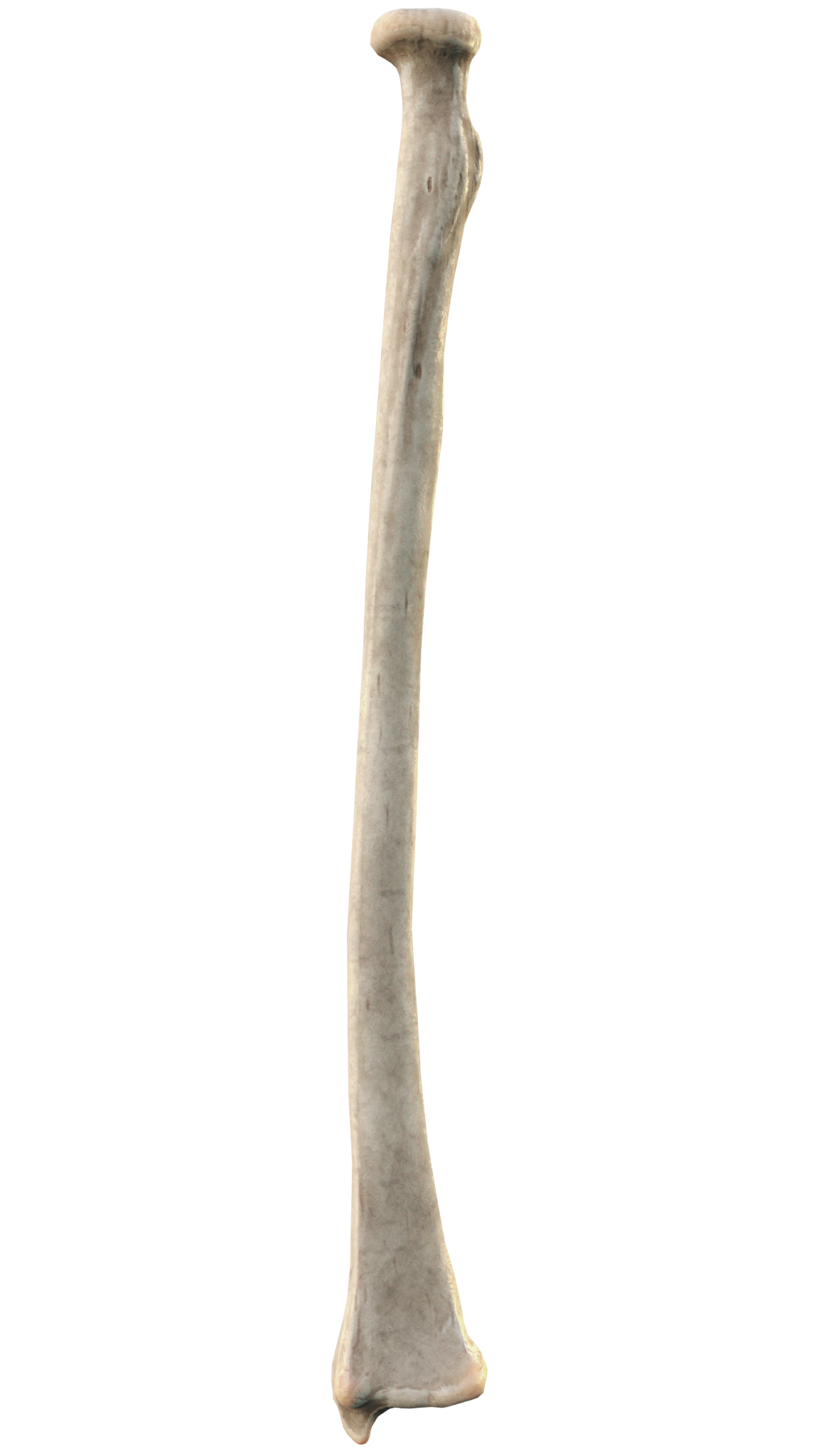 Computer Generated 3d Model showing: Full Anterior View of Right Radius.